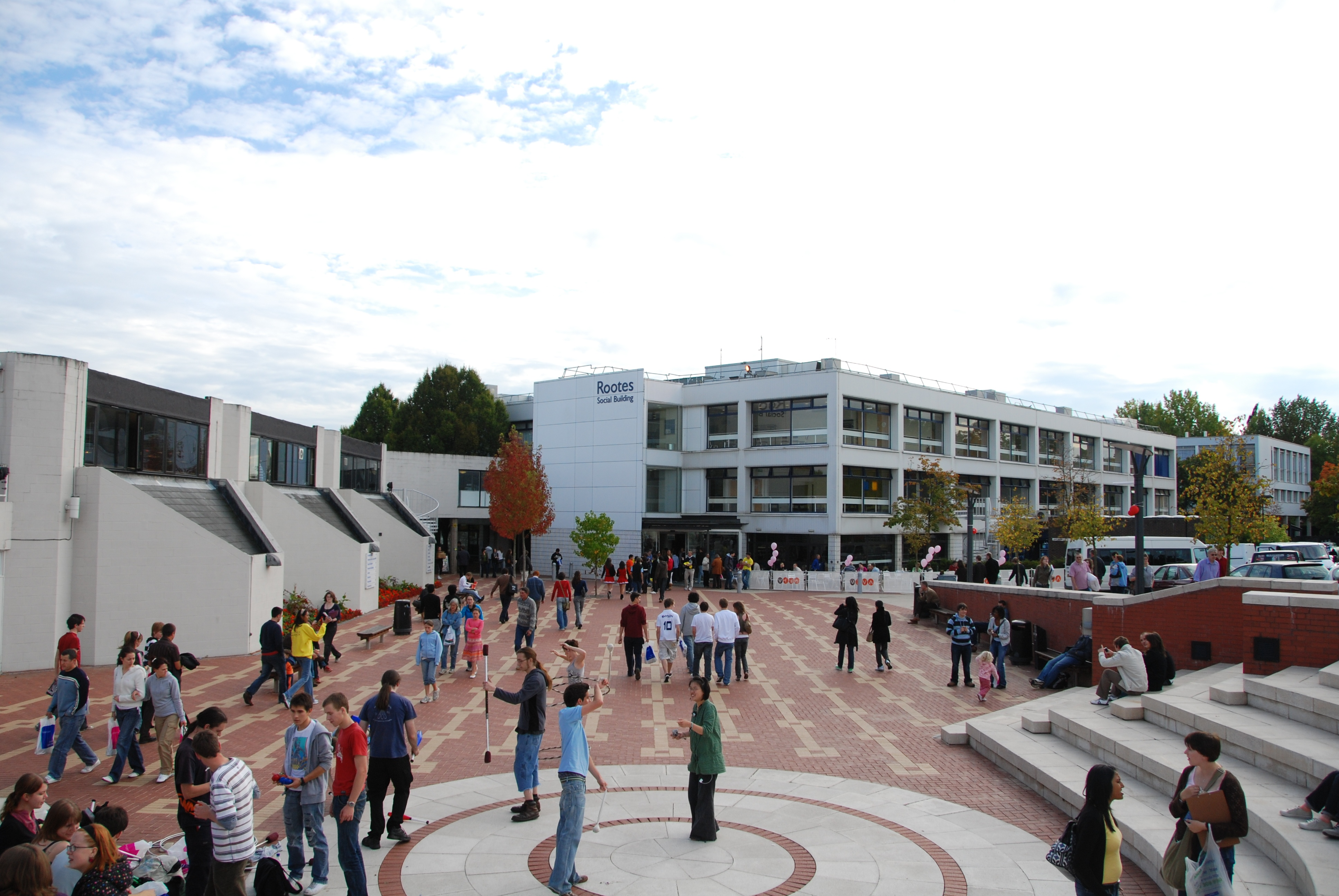 Rootes Social Building at the University of Warwick, Coventry, England.